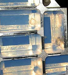 Stardust probe sample return, comet dust captured in aerogel.